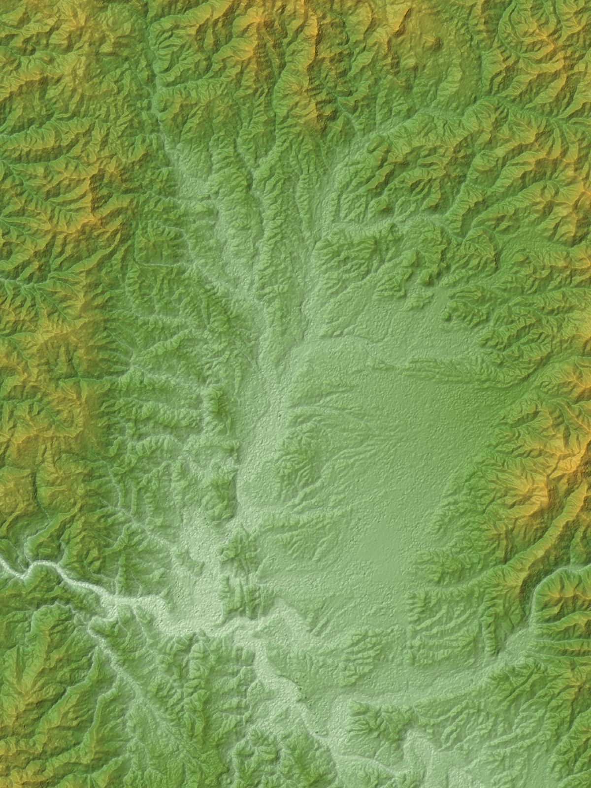 Shinjo Basin in Yamagata Prefecture, Honshu, Japan.